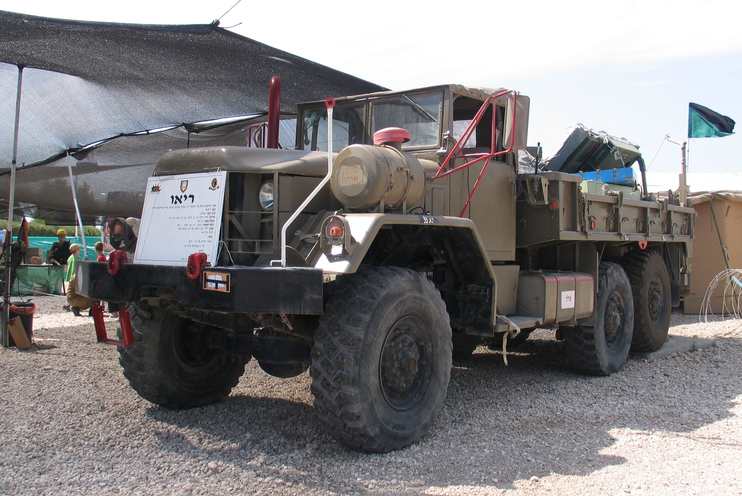 Israel's 60th Independence Day exhibition in Yad la-Shiryon Museum, Israel.